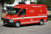 AHBVPA-ABSC 01